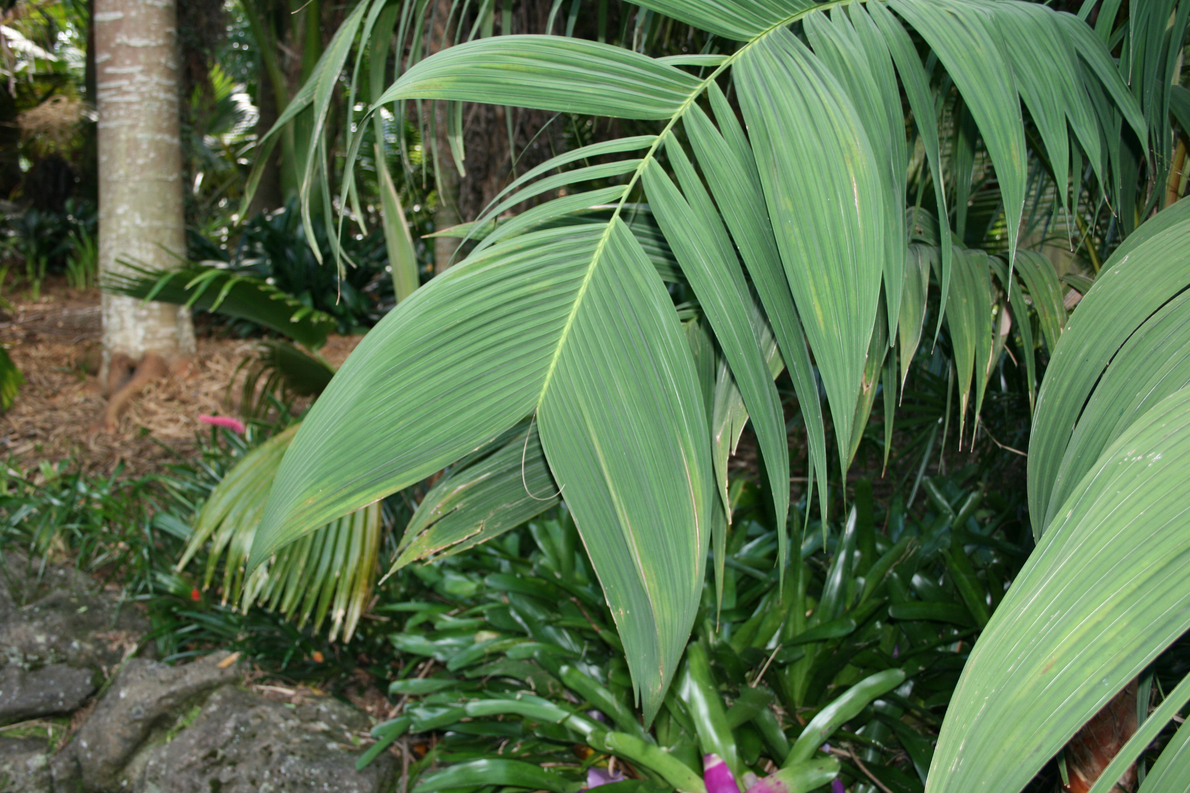 Geonoma undata or Red Crownshaft Palm. Native to Central and western South America where it grows in cloud forest. This is a young specimen growing in cultivation at Kerikeri, New Zealand